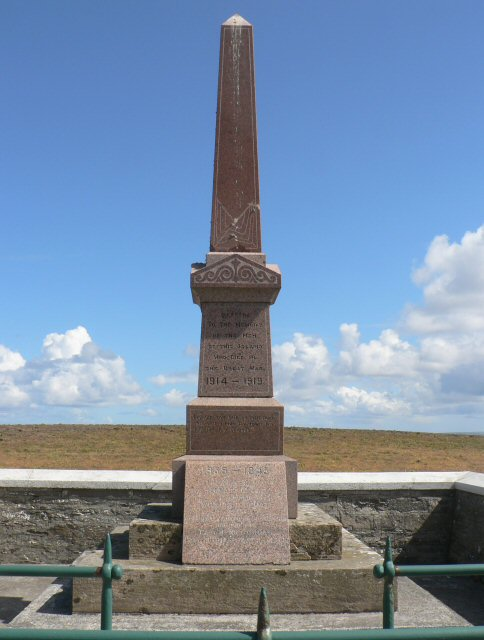 War memorial, Papa Westray. The inscriptions record the loss of eight men from the first world war; four in the Gordon Highlanders and Seaforth Highlanders, and four on ships. There are none from the second world war.